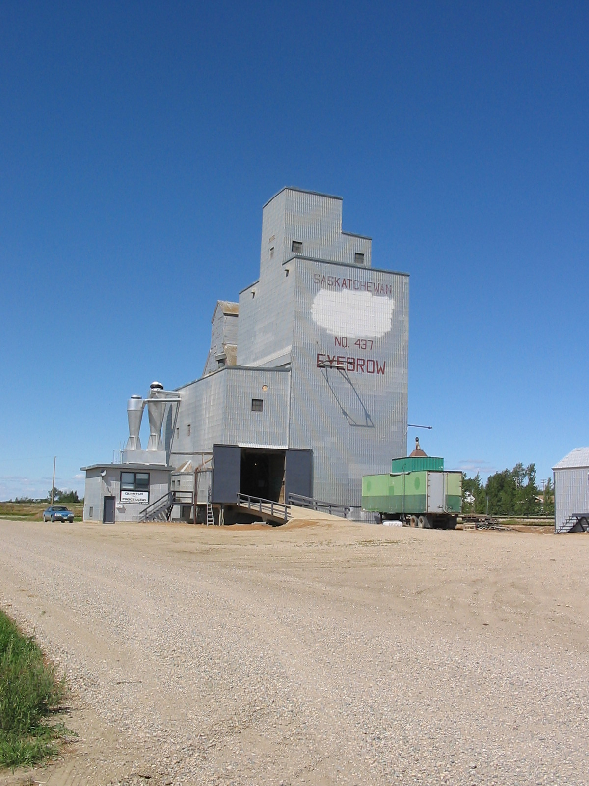 Former Saskatchewan Wheat Pool grain elevator in the village of Eyebrow, Saskatchewan, Canada.